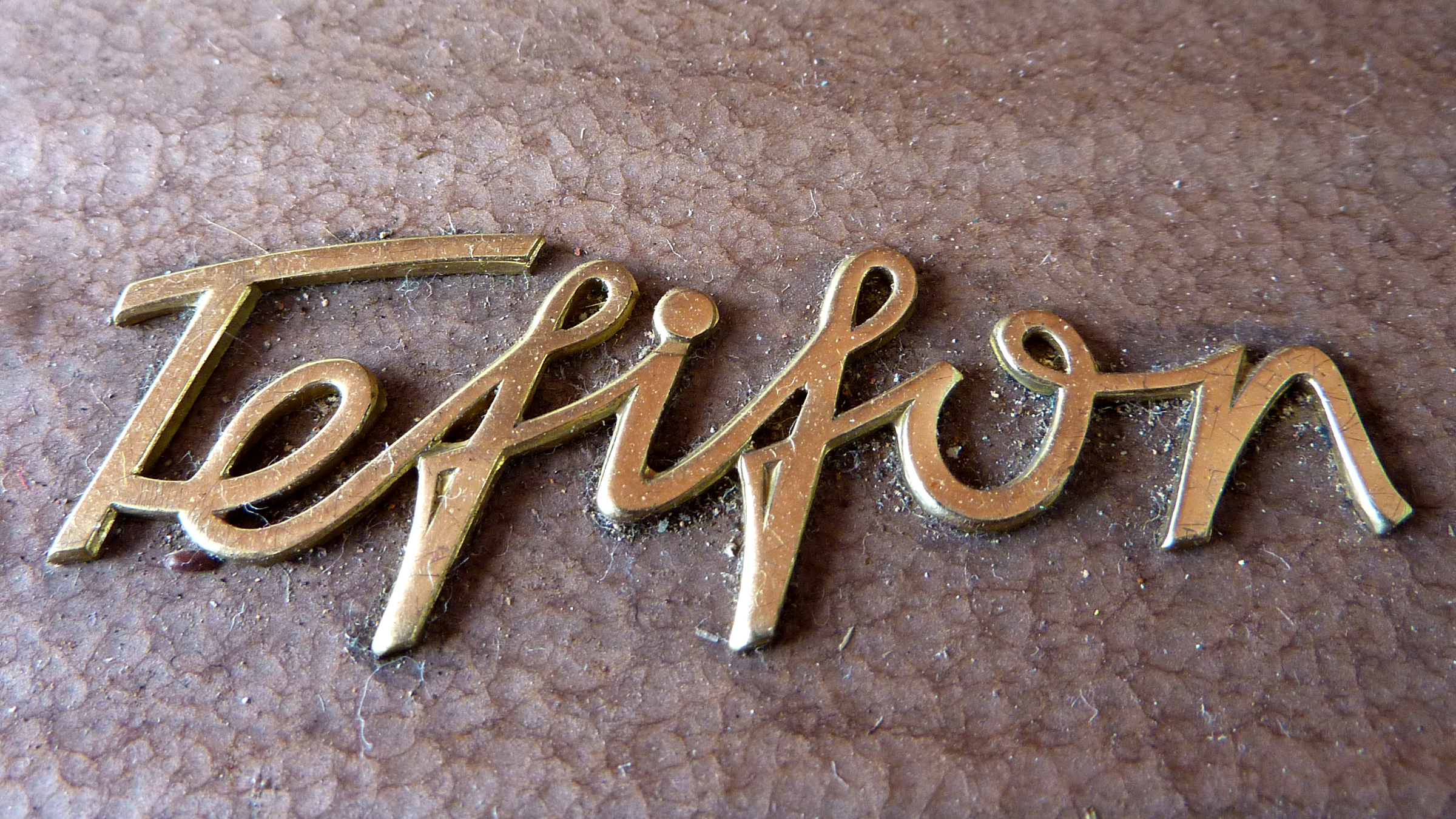 Tefifon